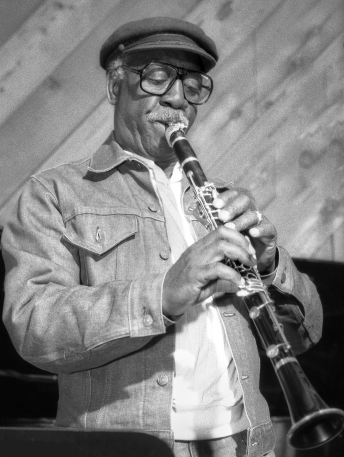 John Carter at Bach Dancing & Dynamite Society, Half Moon Bay CA 5/15/88